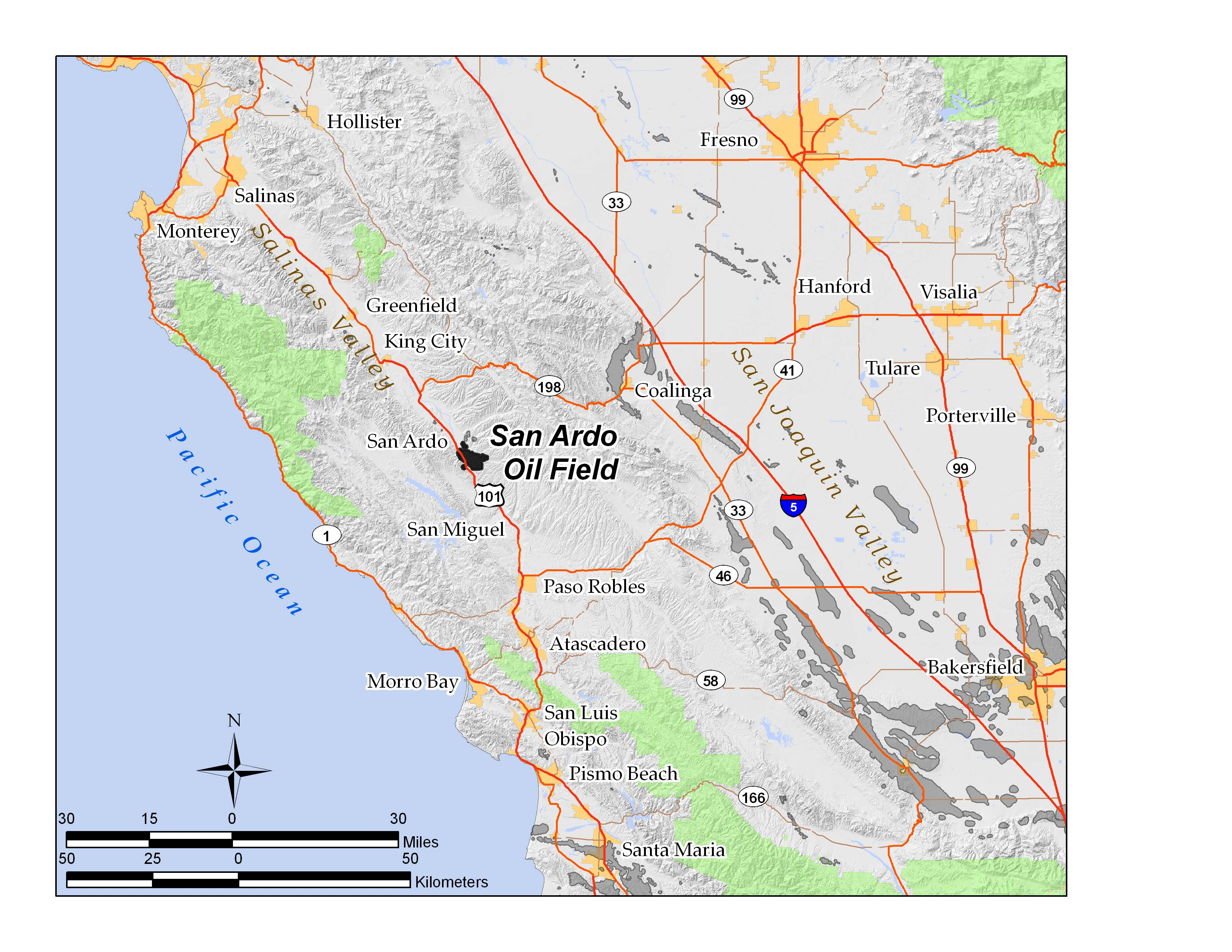 Map of the San Ardo oil field. Located in the southern Salinas Valley — of southern Monterey County, California. Map made by User:Antandrus in ArcGIS 9.2; all data shown on this map is in the public domain (USGS, US Census TIGER files, etc.)